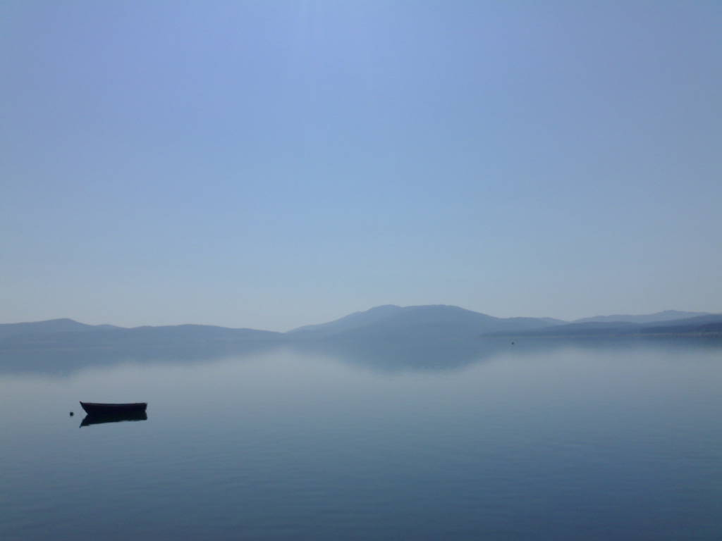 It is a picture of the lake formed because of the dam on the Iskar river in Bulgaria.